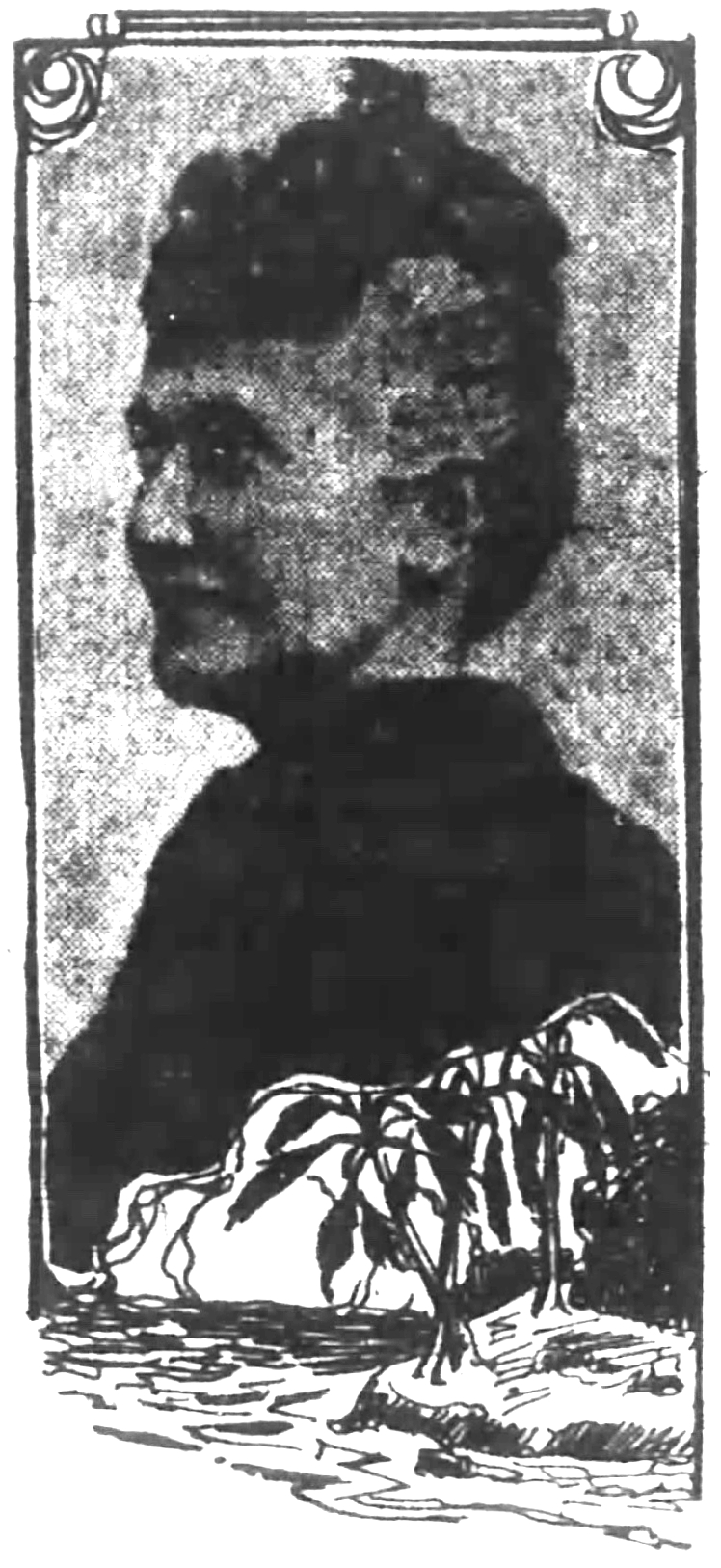 Mary Ann Kinoʻole Kaʻaumokulani Pitman Ailau